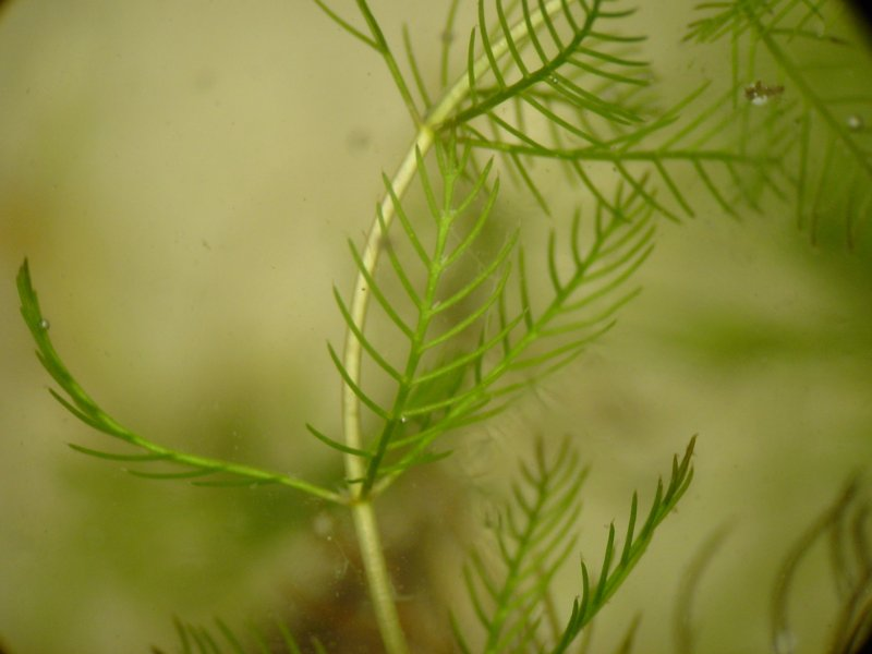 Ähren-Tausendblatt Myriophyllum spicatum